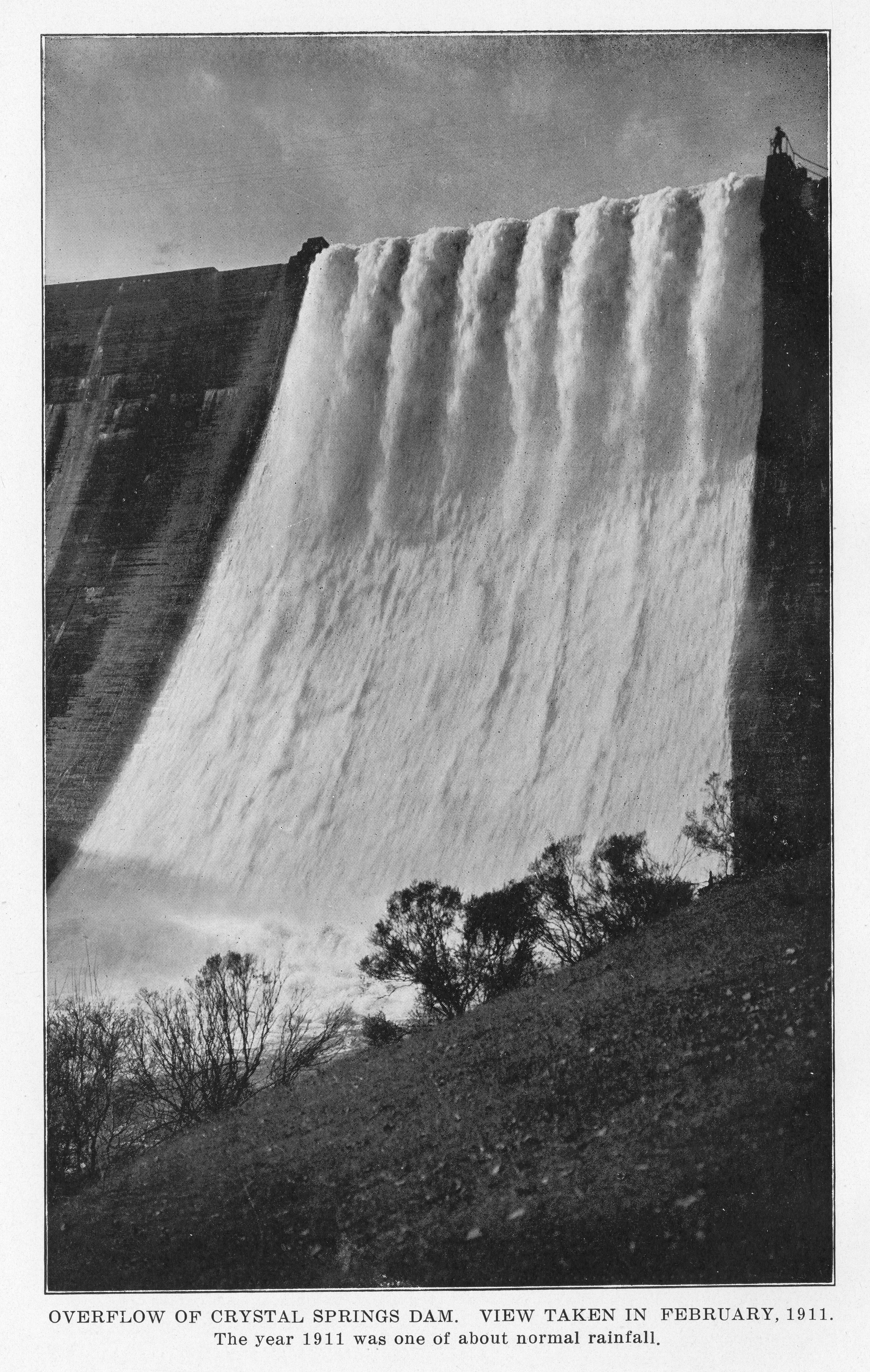 Crystal Springs Dam overflowing, in February 1911, a very wet winter, viewed from below by the San Mateo Creek